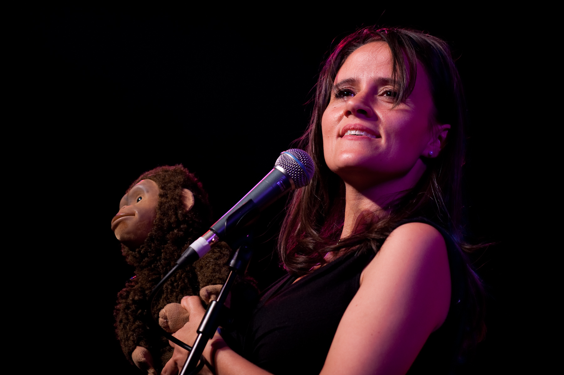 Nina Conti (right) performing with Monk (left) at the Glastonbury Festival 2010